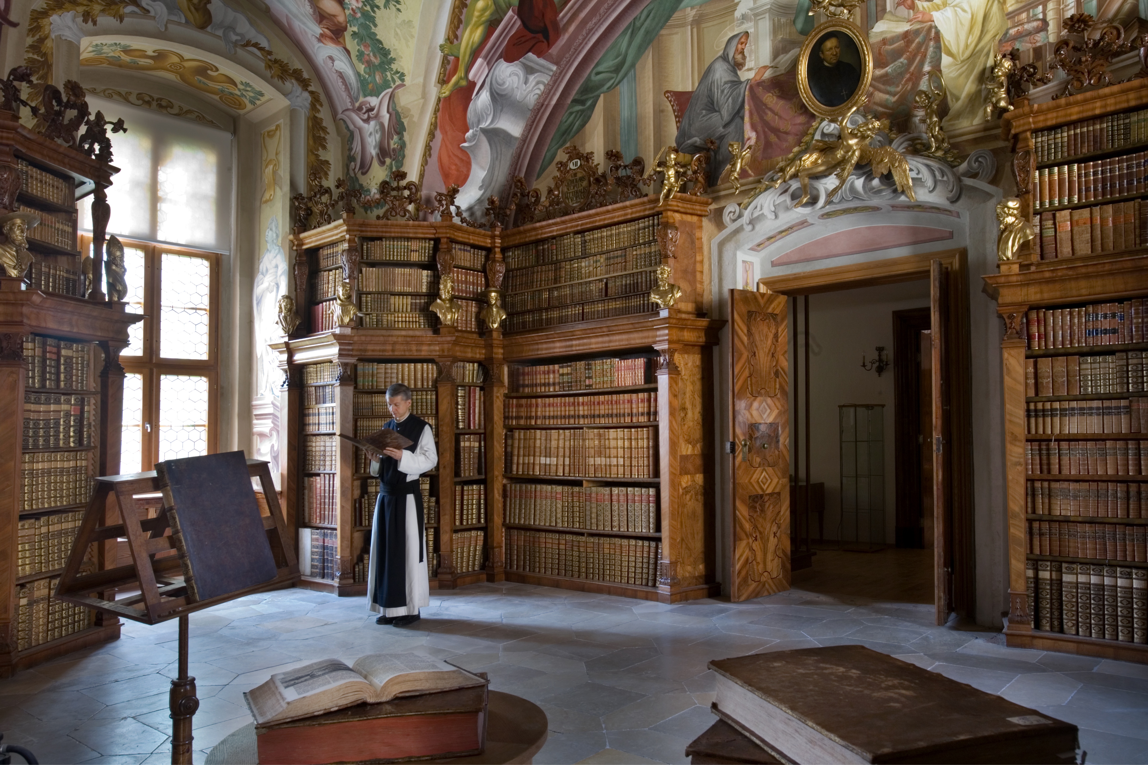 Heiligenkreuz Abbey library, Austria